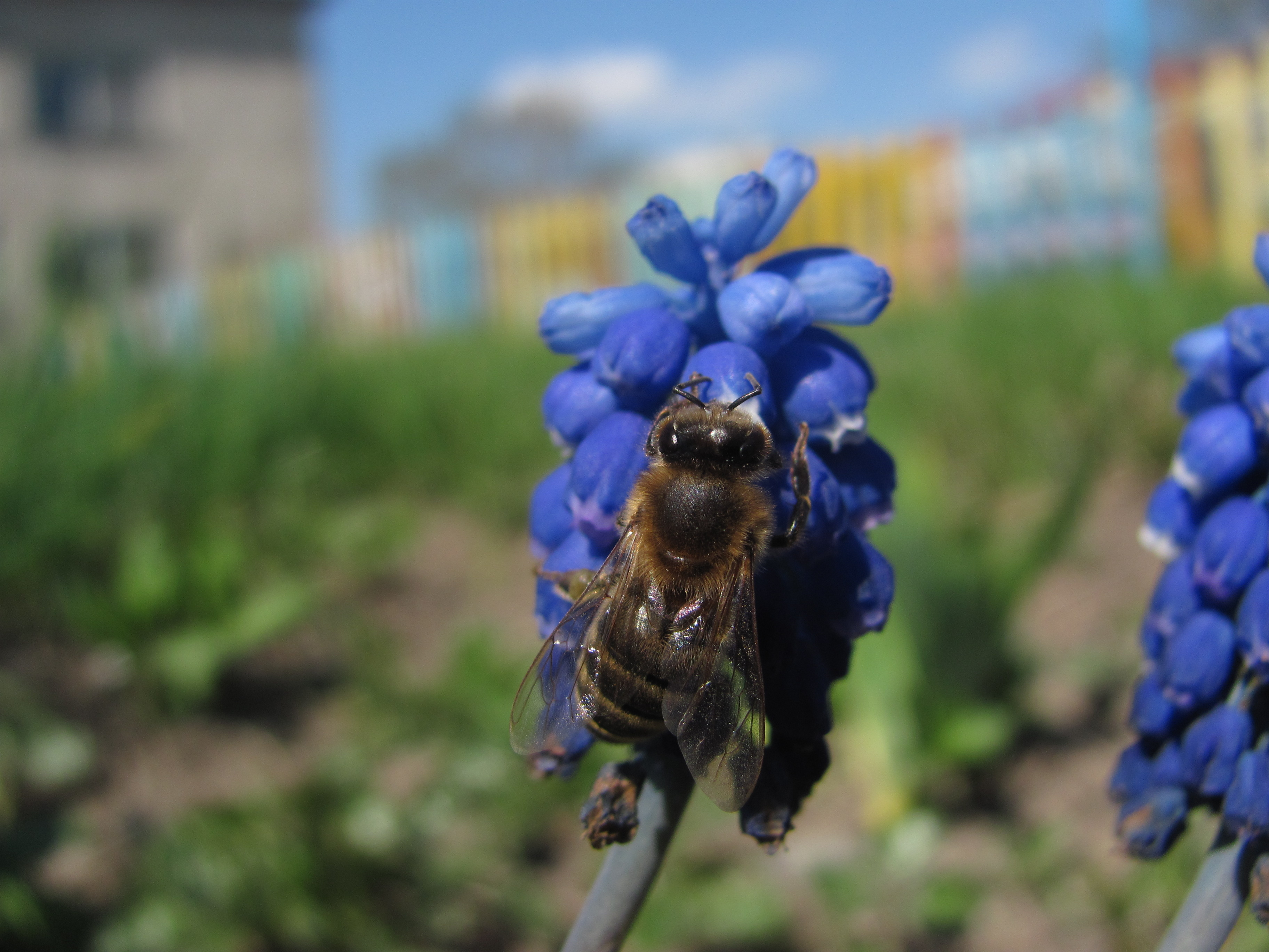 Bee Apis mellifica on Muscari sp. (Sakhalin)